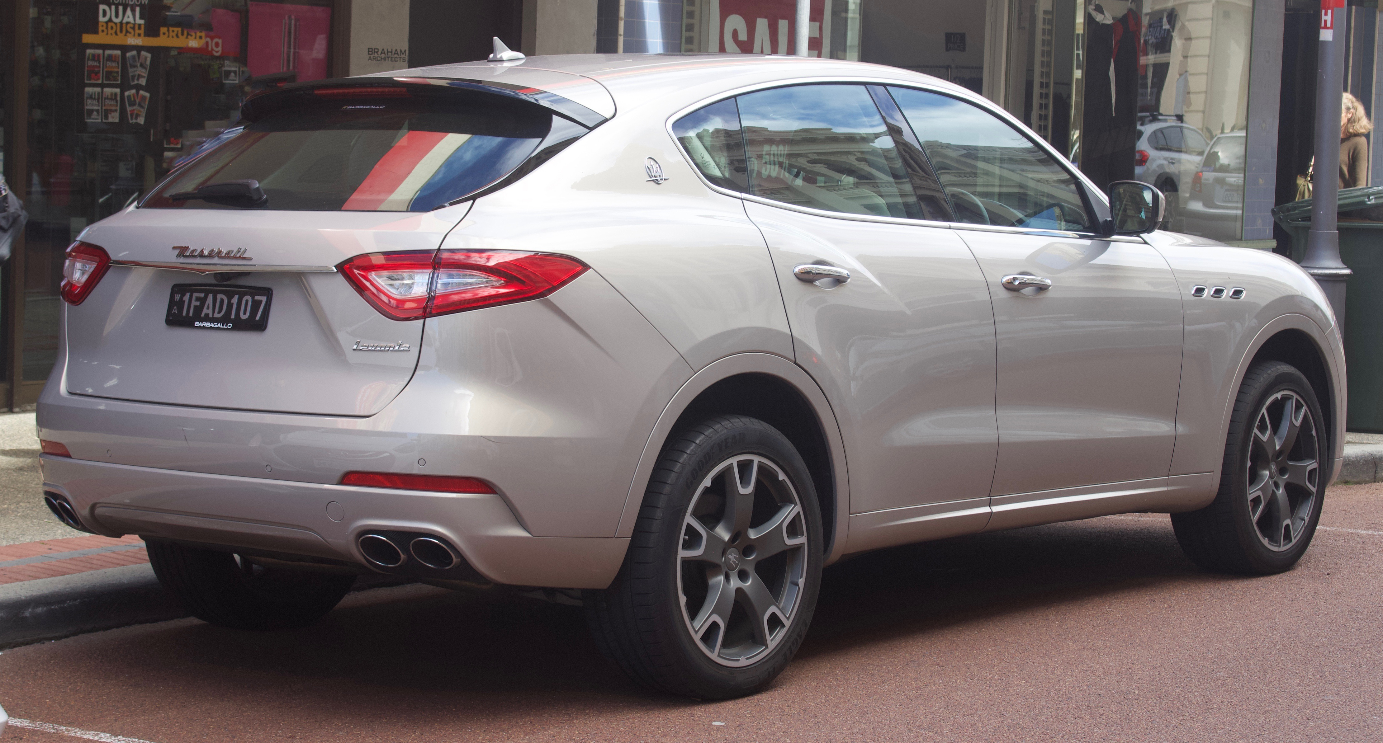 2018 Maserati Levante (M157) GranLusso wagon. Photographed in Fremantle, Western Australia, Australia.